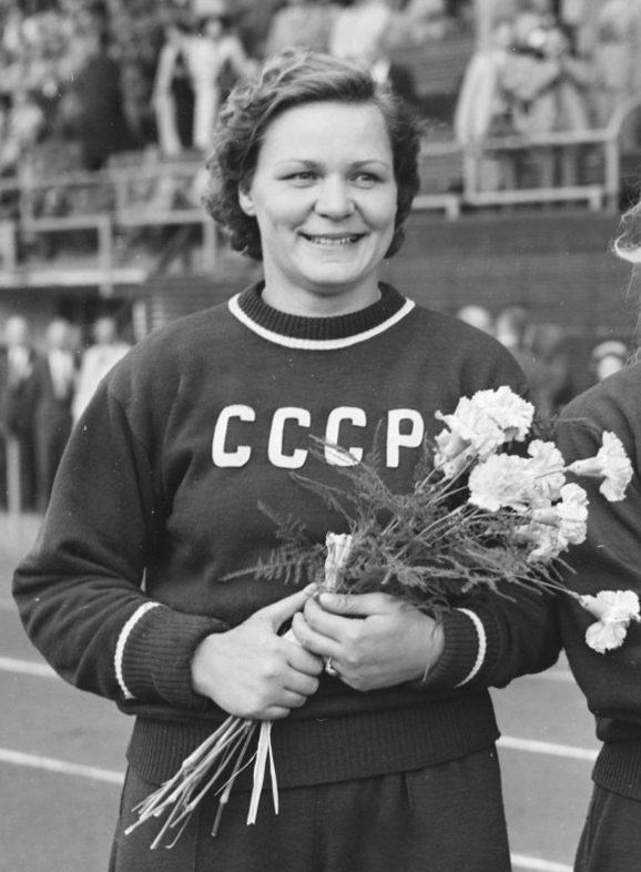 1952 Summer Olympics in Helsinki. Women's shot put. Klavdiya Tochonova.